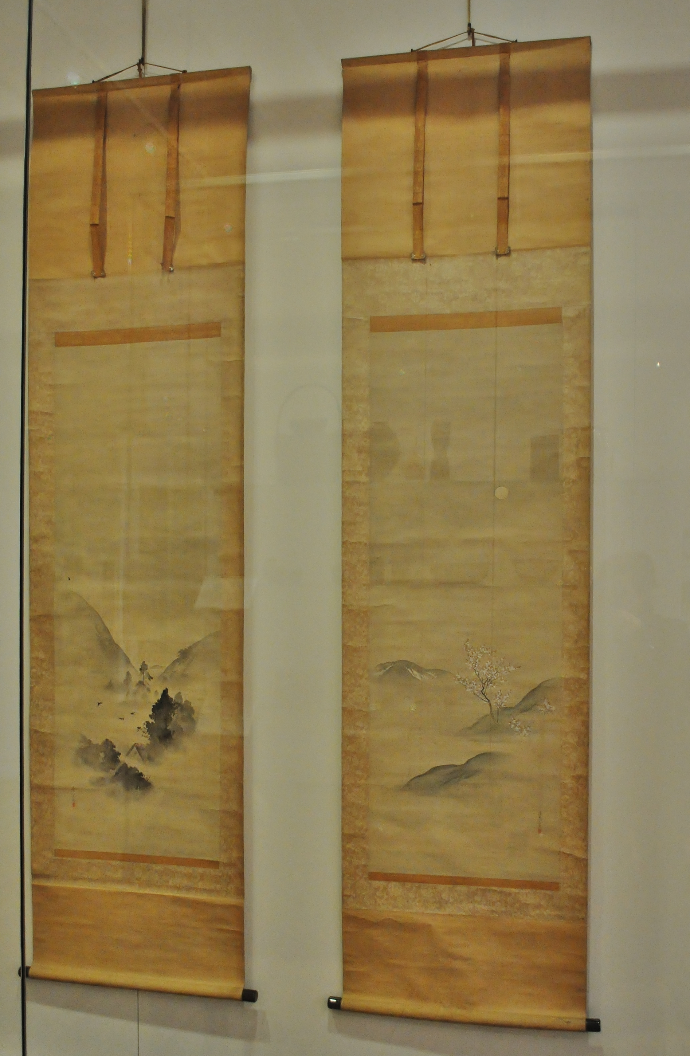 pair of kakejiku by Hara Zaisho showing Spring and autumn landscapes full view